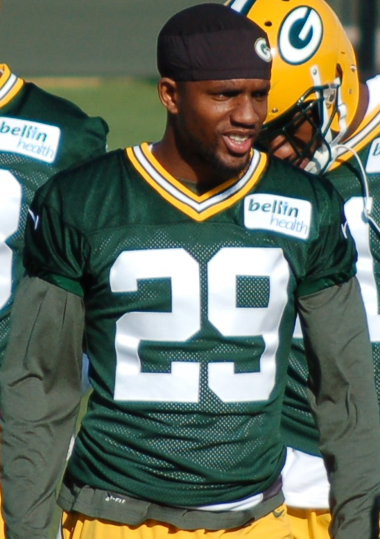 2015 Packers training camp